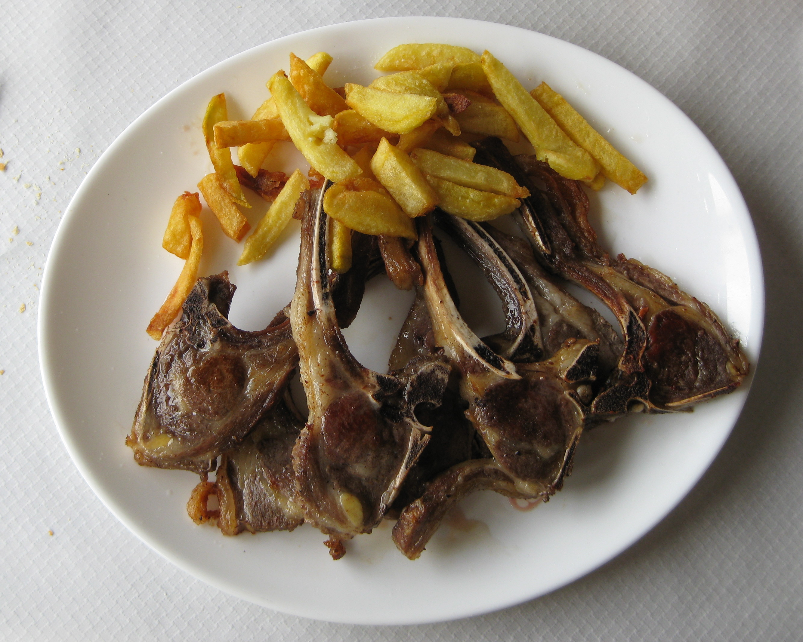 A plate of Chuletillas de cordero (Baby lamb chops), served in the bar El Roxin in El Mazuco, Asturias, Spain.